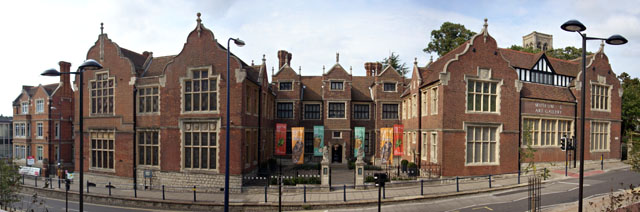 Maidstone Museum and Bentlif Art Gallery Seen from 77412 the southern façade, in St Faiths Road, is on the extreme northern edge of the gridsquare. The centre section, set back from the road, is the Elizabethan Chillington Manor, built in the late sixteenth century with the east and west wings added in the late nineteenth century. The collections are definitely worth a visit and, as there's no admission charge, you have nothing to lose! For more information see the Maidstone Museum and Bentlif Art Gallery website